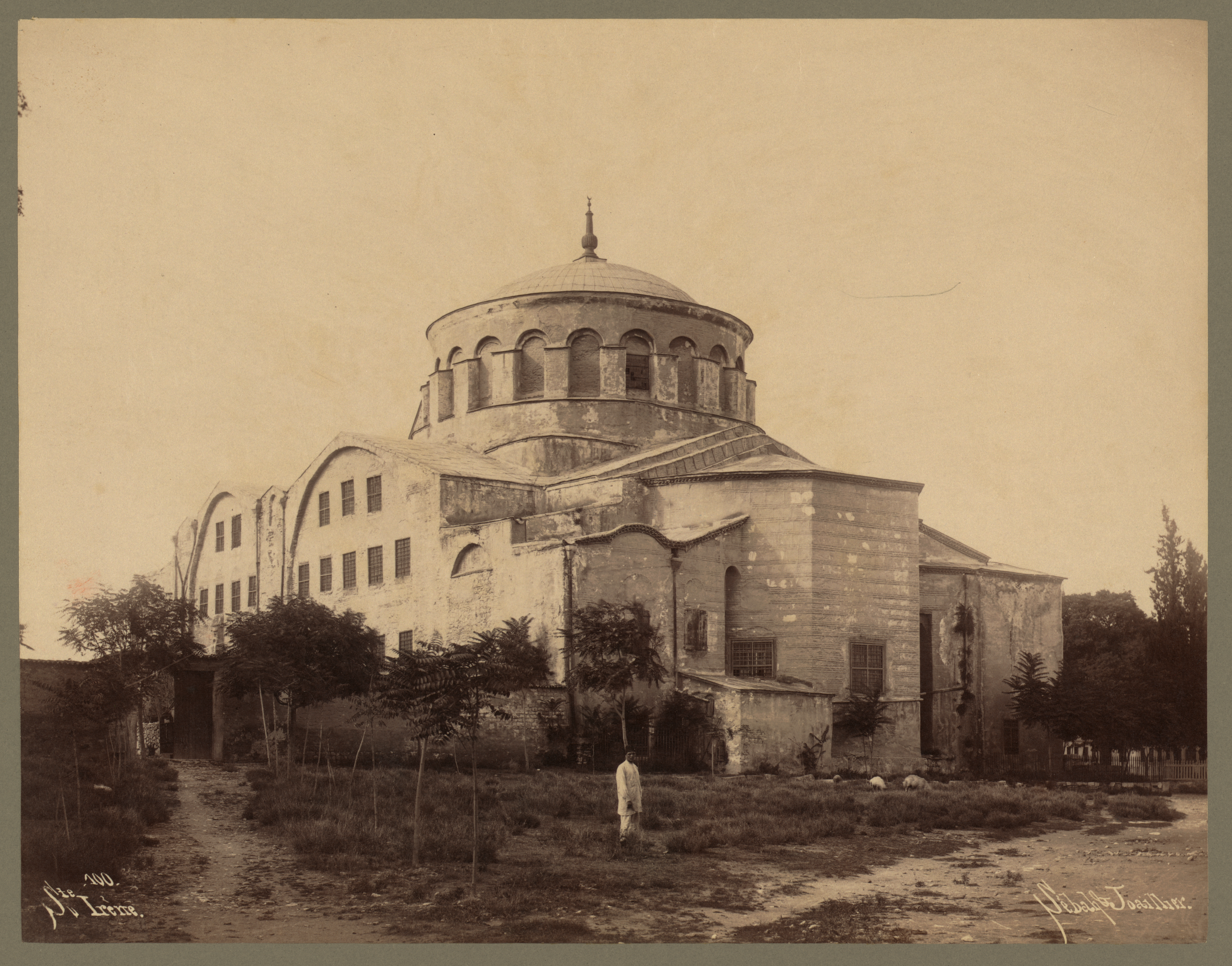 Exterior of Saint Irene Church, Istanbul, Turkey. "Ste Iréne / Sébah & Joaillier". 1 photographic print : albumen.